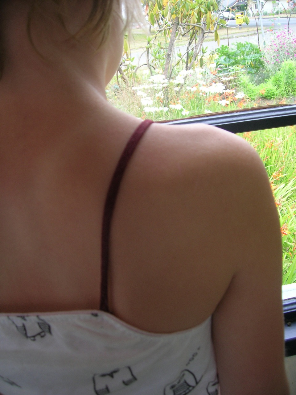 This is a close-up partly to show the spaghetti straps I'd made instead of using elastic (following the pattern directions led to curled-up elastic mess), and partly to show one of the places I love to kiss my beautiful daughter - right on the neck.